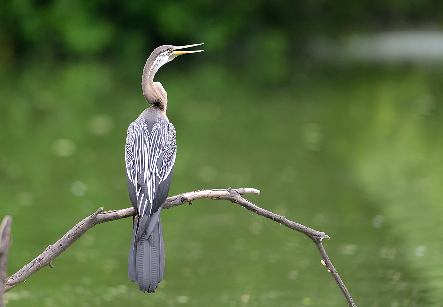 A Oriental Darter in Keoldev Ghana National Park, Bharatpur, Rajasthan, India.